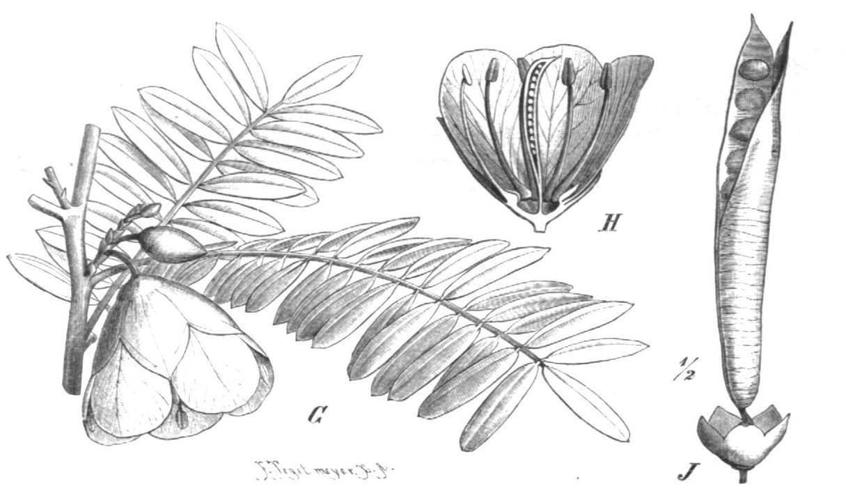 Illustration from book